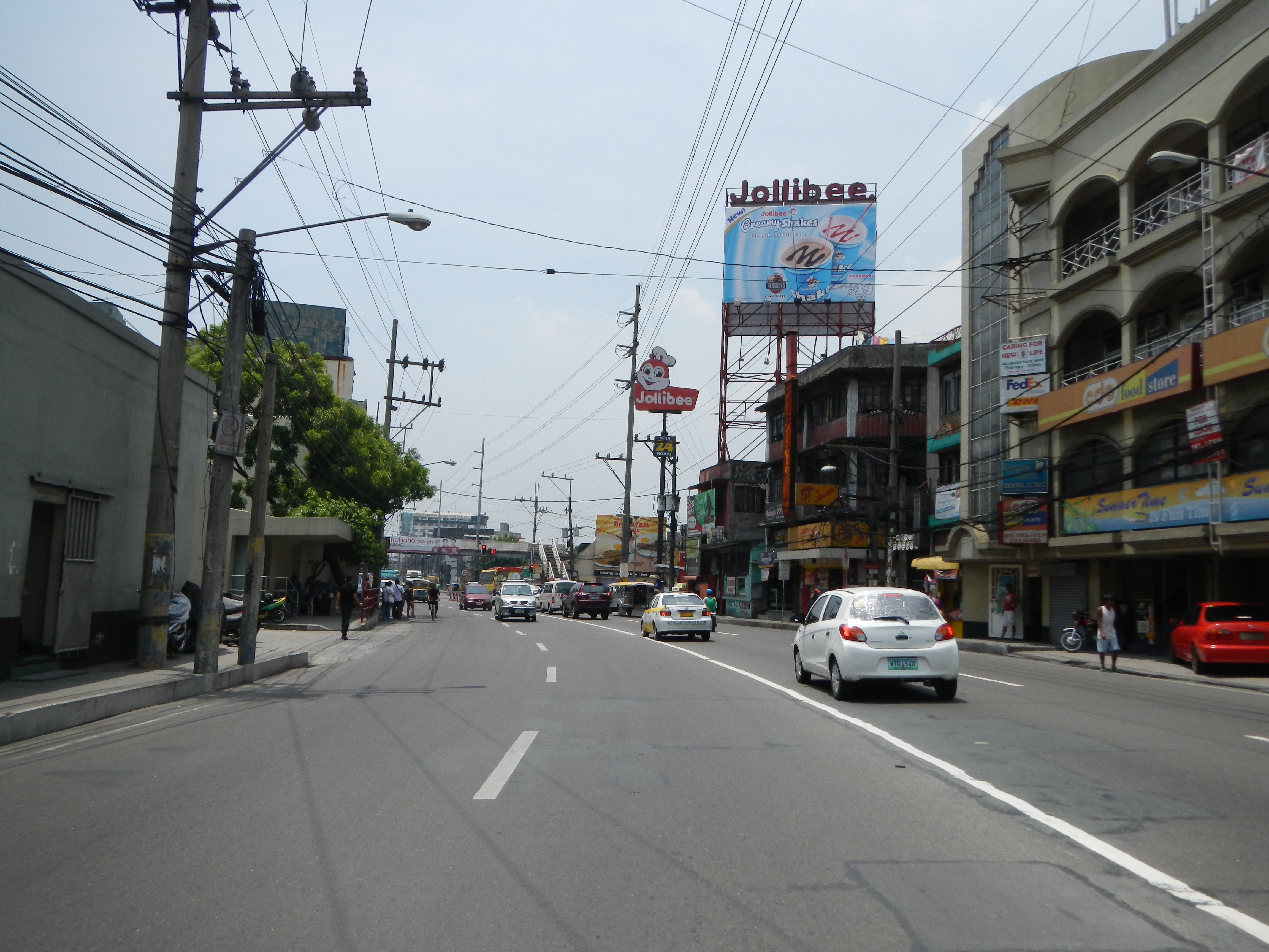 MacArthur Highway (in Metro Manila landmark Beer Brewery Plant since 1915[1] Brewing San Miguel Brewery San Miguel Brewery, Inc. (SMB) of the San Miguel Corporation), Marulas, Valenzuela City gateway to Maysan Road, Valenzuela, Lists of barangays in Philippine cities and municipalities, List of barangays in Valenzuela: to Category:SaveMore Market (Marulas, Valenzuela City).